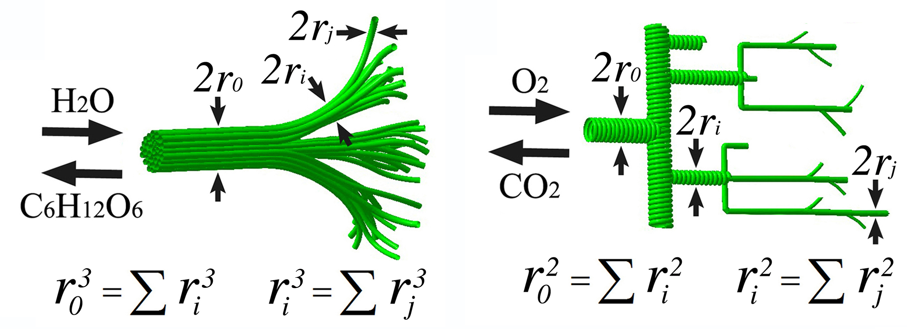 For efficient photosynthesis with energy storage, plants possess leaf veins which show increasing number of branches and narrowing porous channels from macro to micro levels for water and nutrient transfer. For efficient breathing with energy conversion, insects employ open spiracles with similar porous networks for gas diffusion.